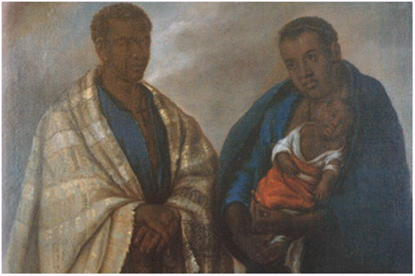 18th century painting made in Colonial Peru showing a family of free blacks